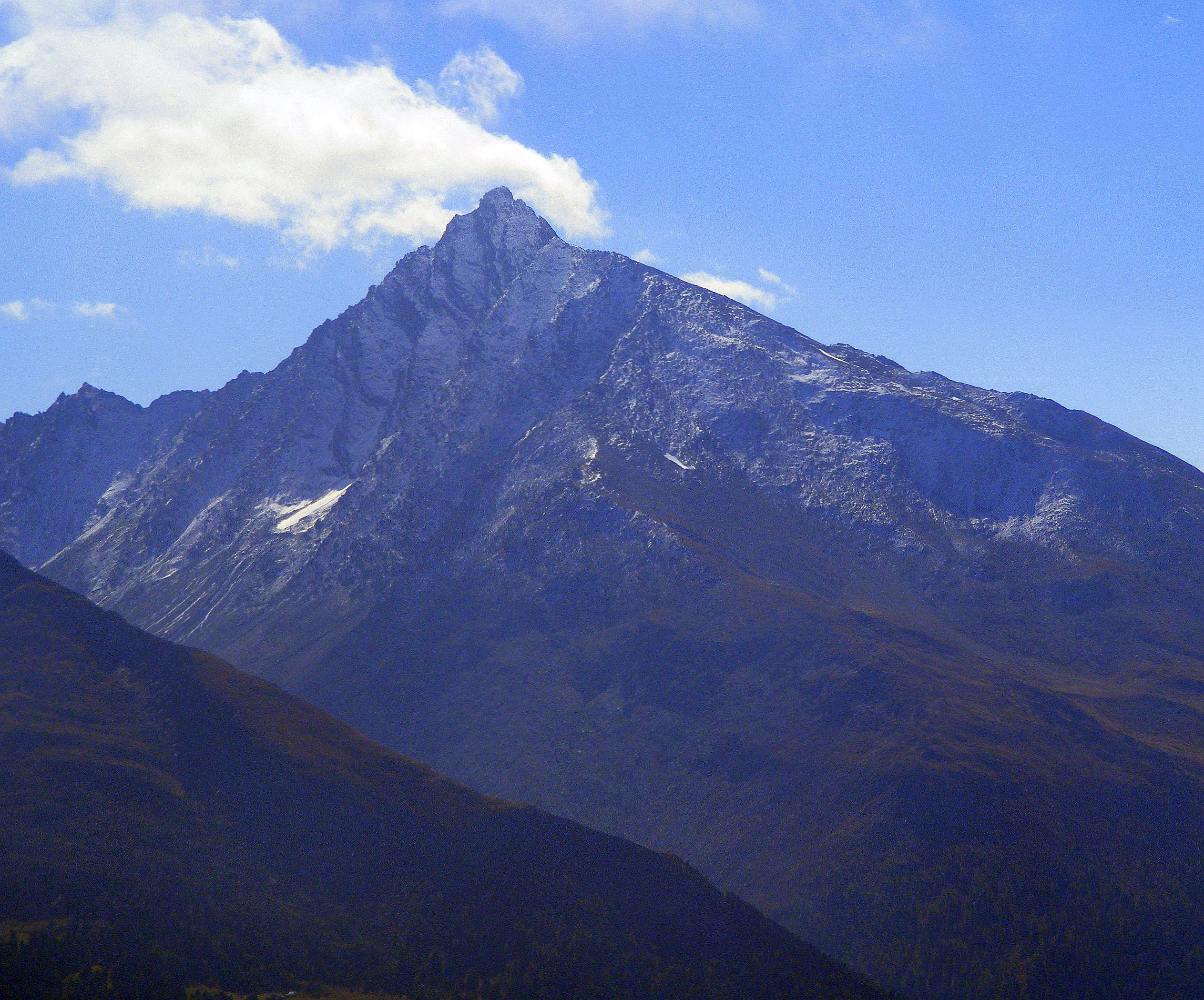 Aiguille de Scolette (FR)/Pierre Menue (IT); french-italian border, as seen from Assois valley (FR)